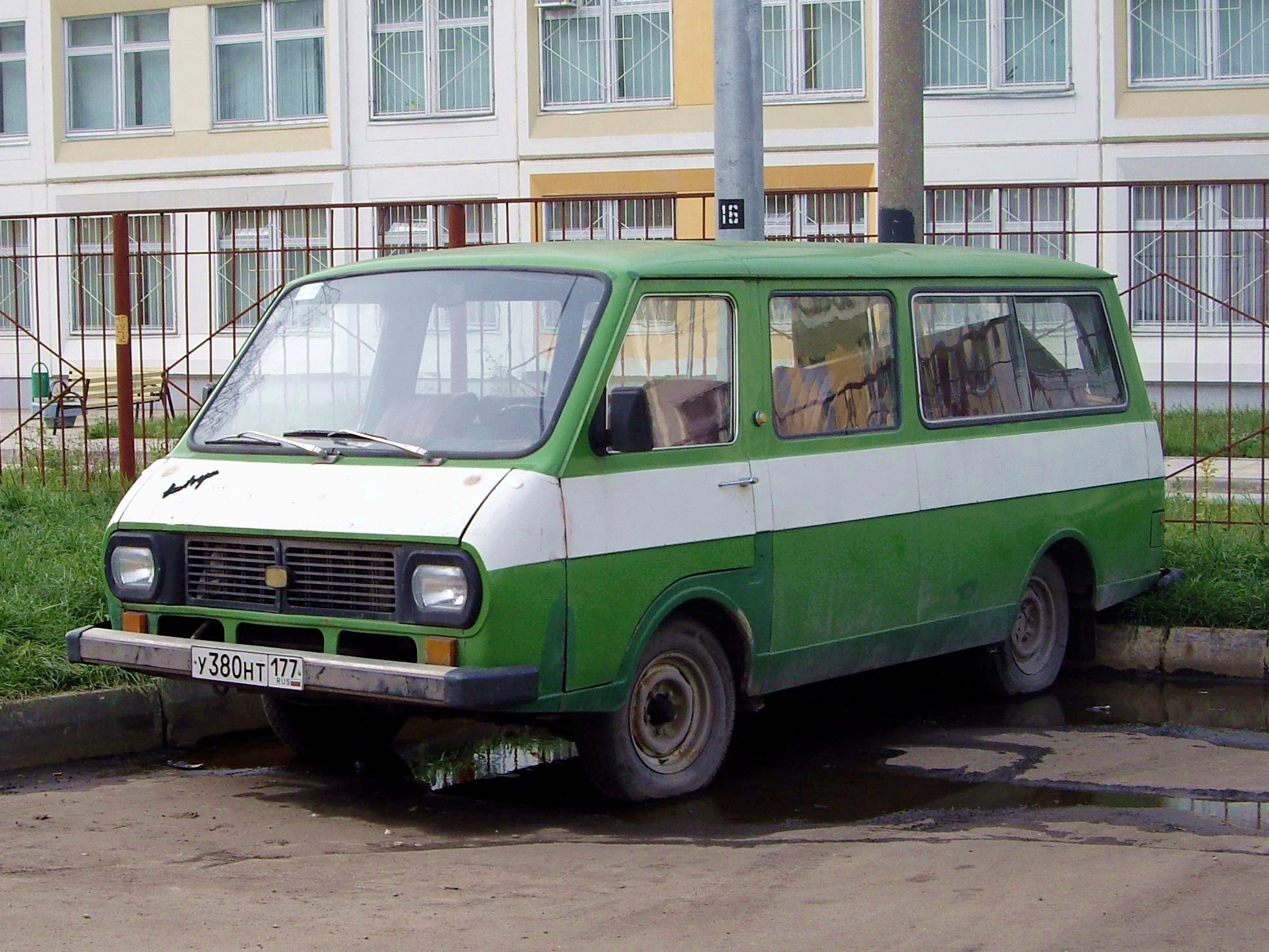 RAF microbus in Moscow